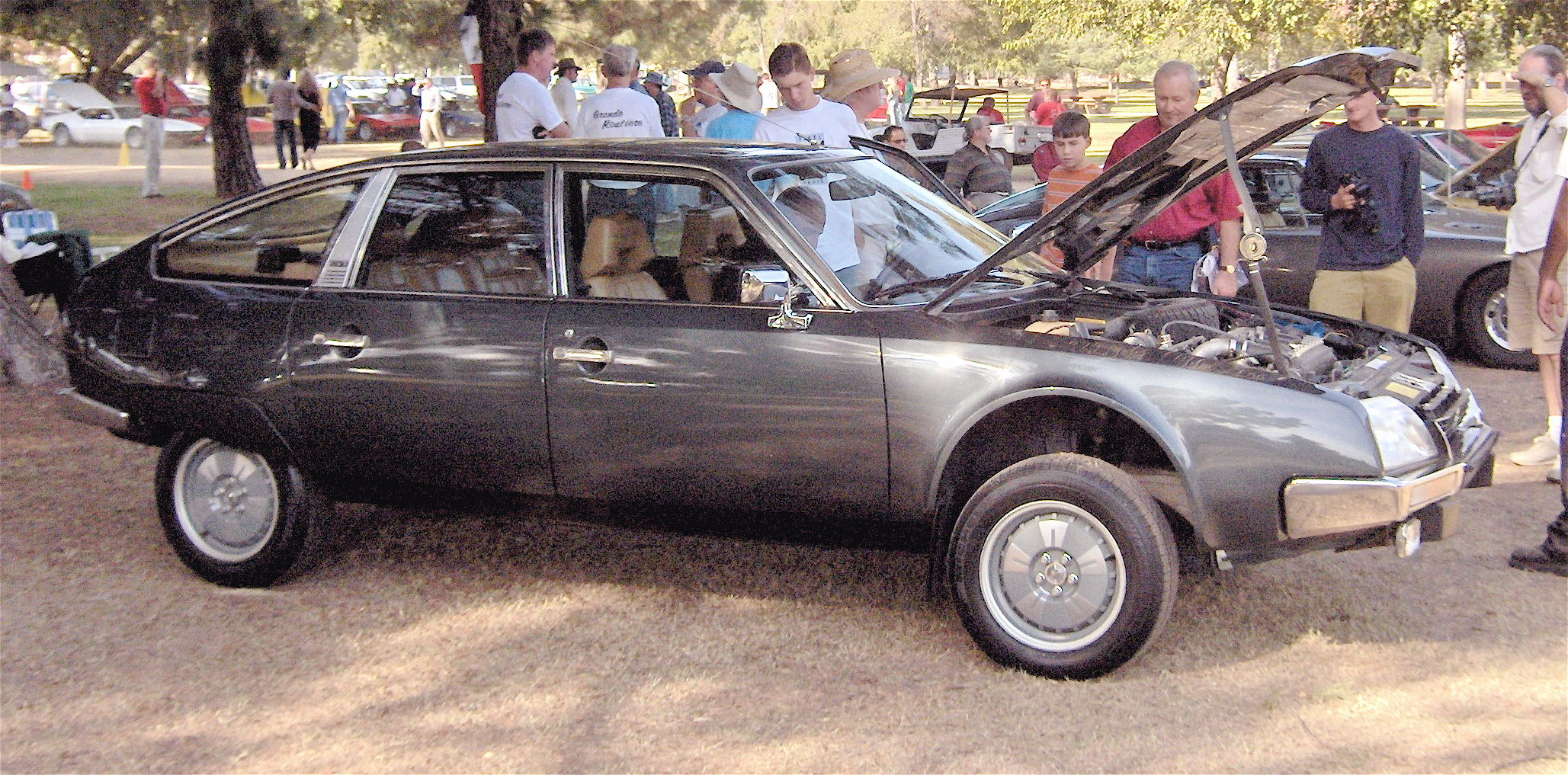 Own photo - public location.